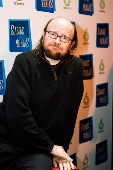 Spanish actor and film maker Santiago Segura.